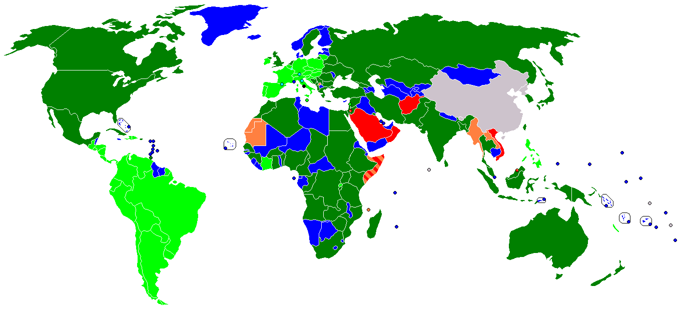 Holy See missions accreditations and relations Vatican City State Diplomatic relations, resident mission, nuncio is of ambassadorial rank and with additional privileges (is dean of the diplomatic corps from the moment he presents his credentials) Diplomatic relations, non-resident accreditation with additional privileges (becomes dean of the diplomatic corps only if he becomes the senior resident diplomatic representative of ambassadorial rank) Diplomatic relations, resident mission, nuncio has regular ambassadorial status Diplomatic relations, non-resident accreditation, regular ambassadorial status Formal contact with the government, but no diplomatic relations Representative to the Catholic communities only, no diplomatic relations